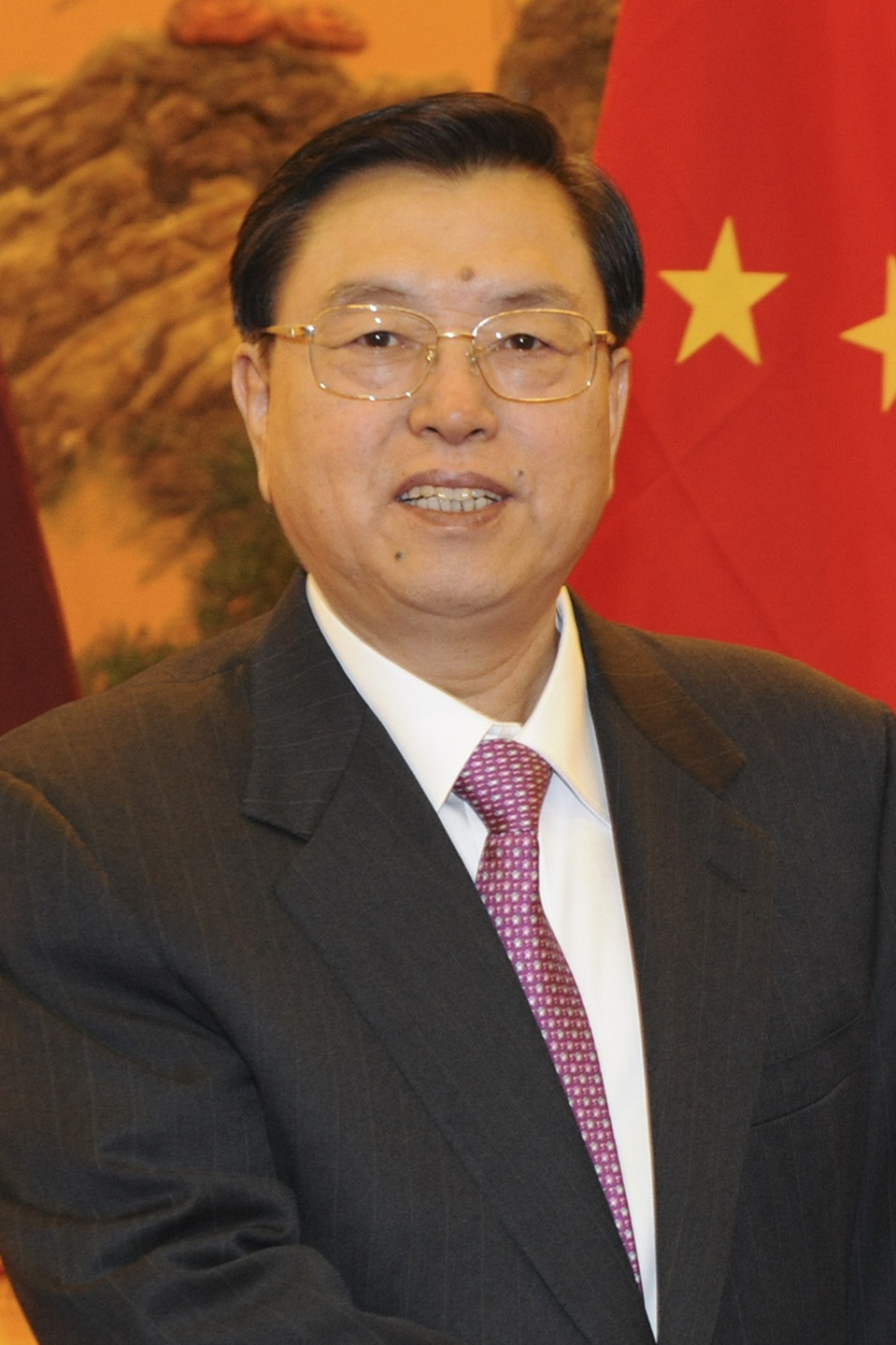 Zhang Dejiang,the chairman of National People's Congress(= parliament) of China,met with Solvlta Aboltina who was then the speaker of Latvian Parliament.